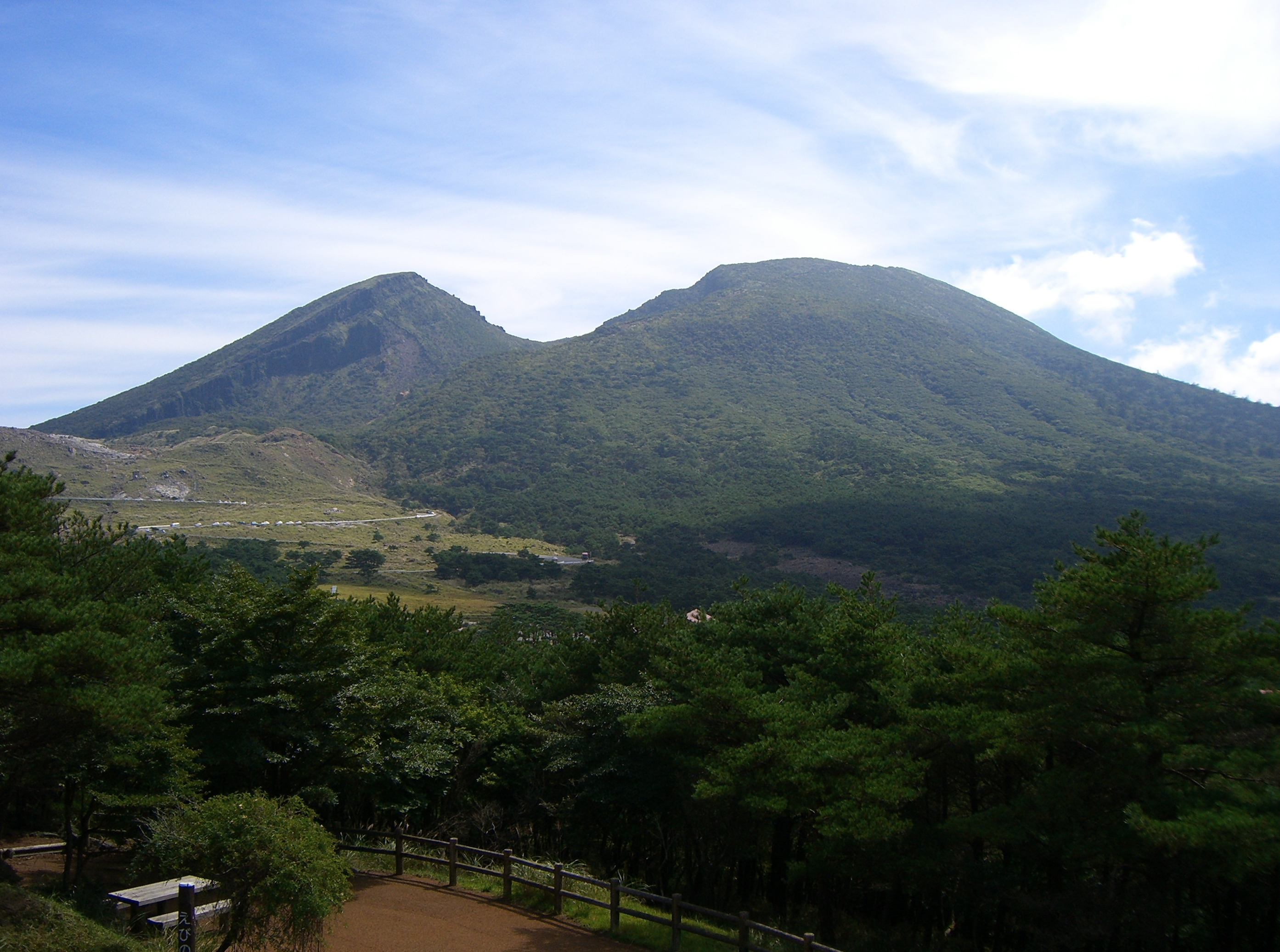 Mt. Karakunidake rises between Kagoshima and Miyazaki, Japan.